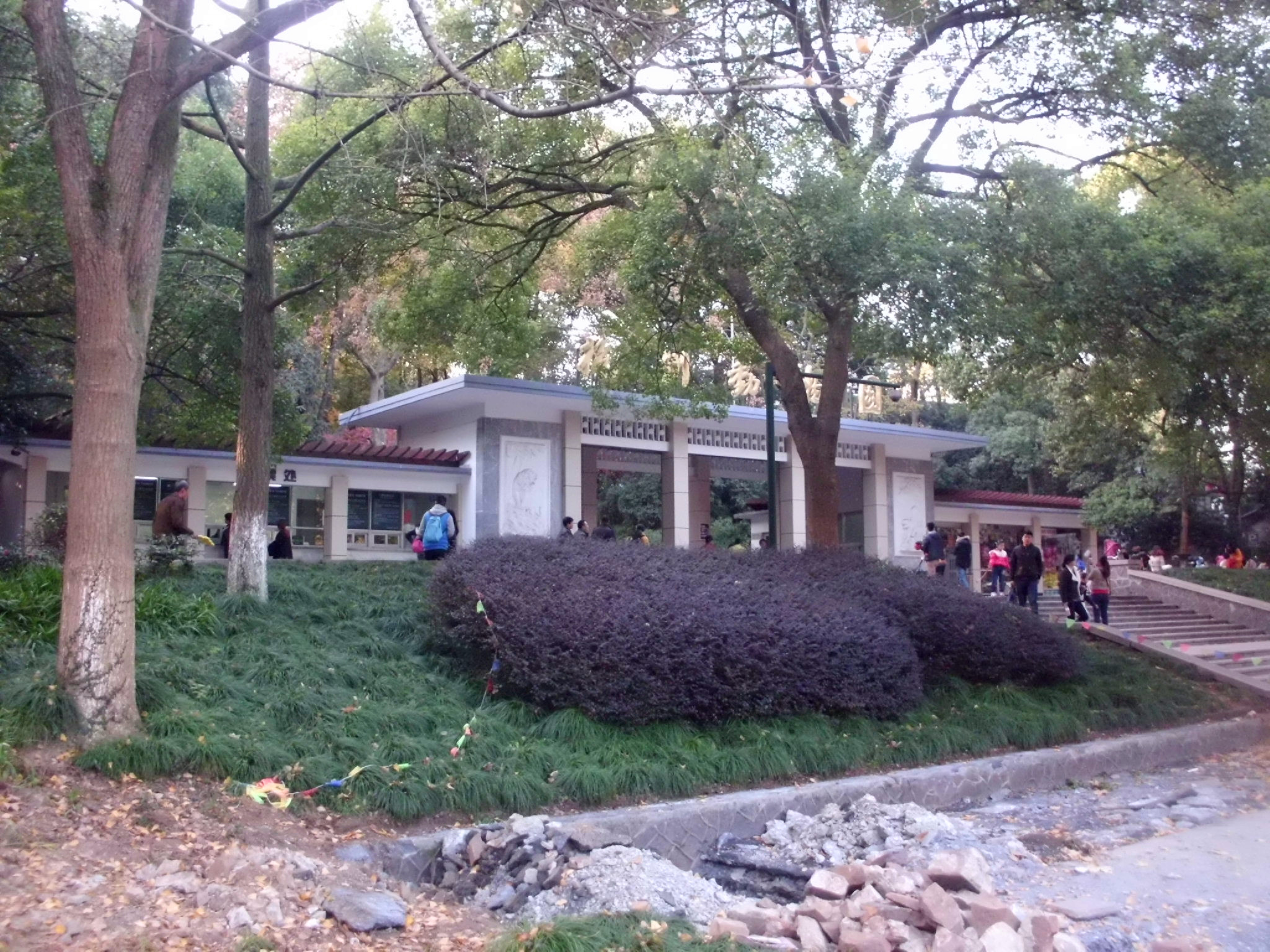 Hangzhou Zoo